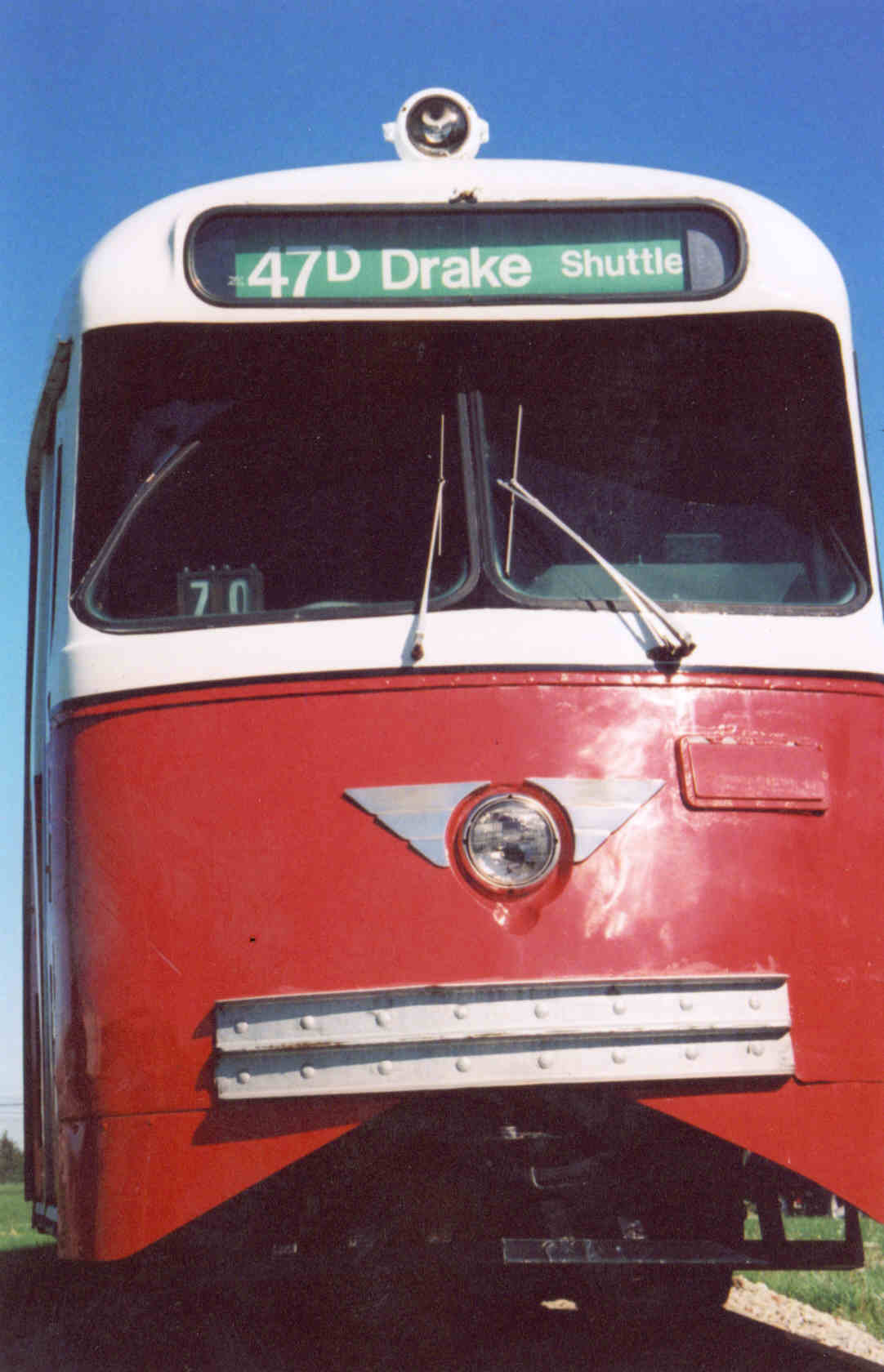 PCC 4001 47D Drake shuttle trolley close up.